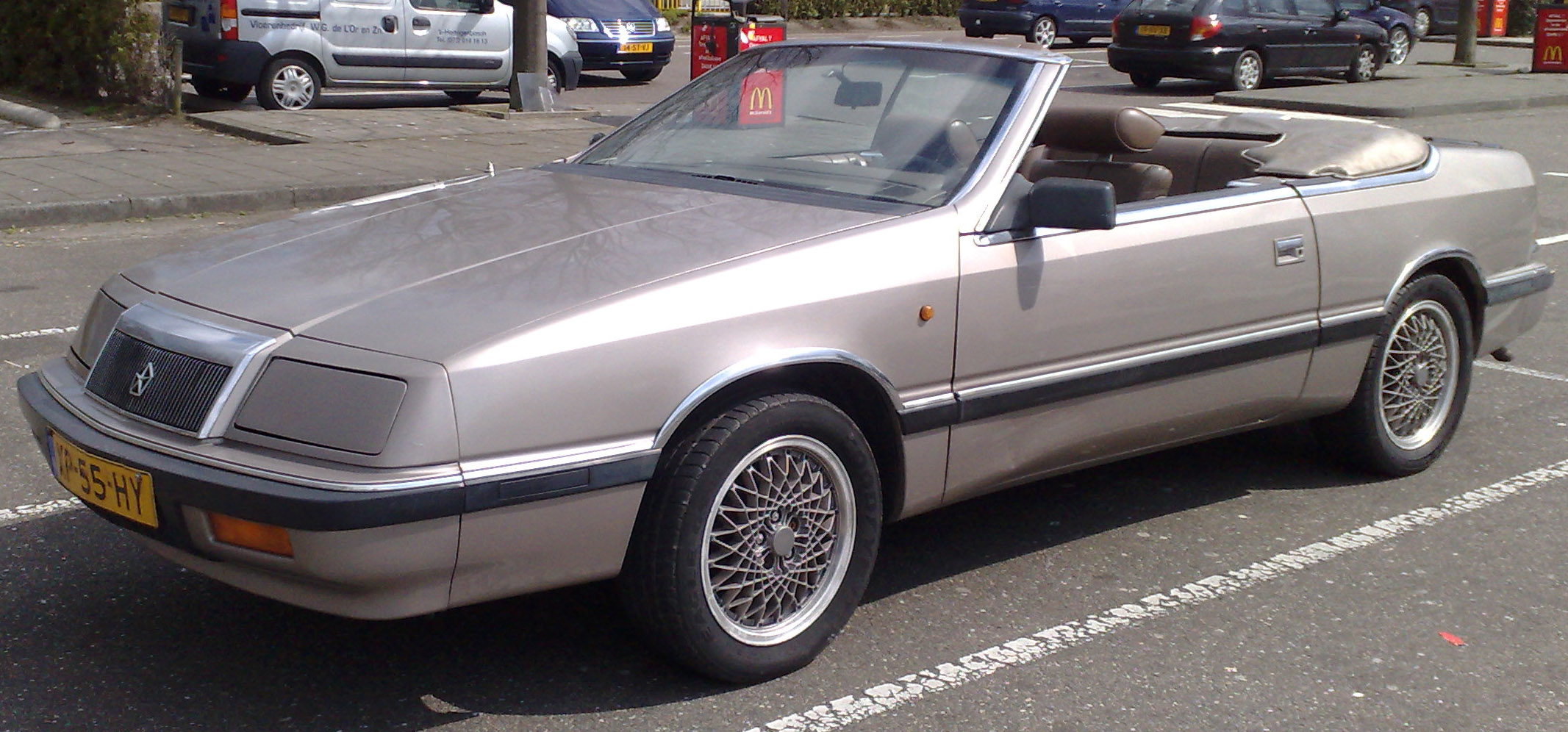 1989 Chrysler LeBaron Convertible Premium 2.5i